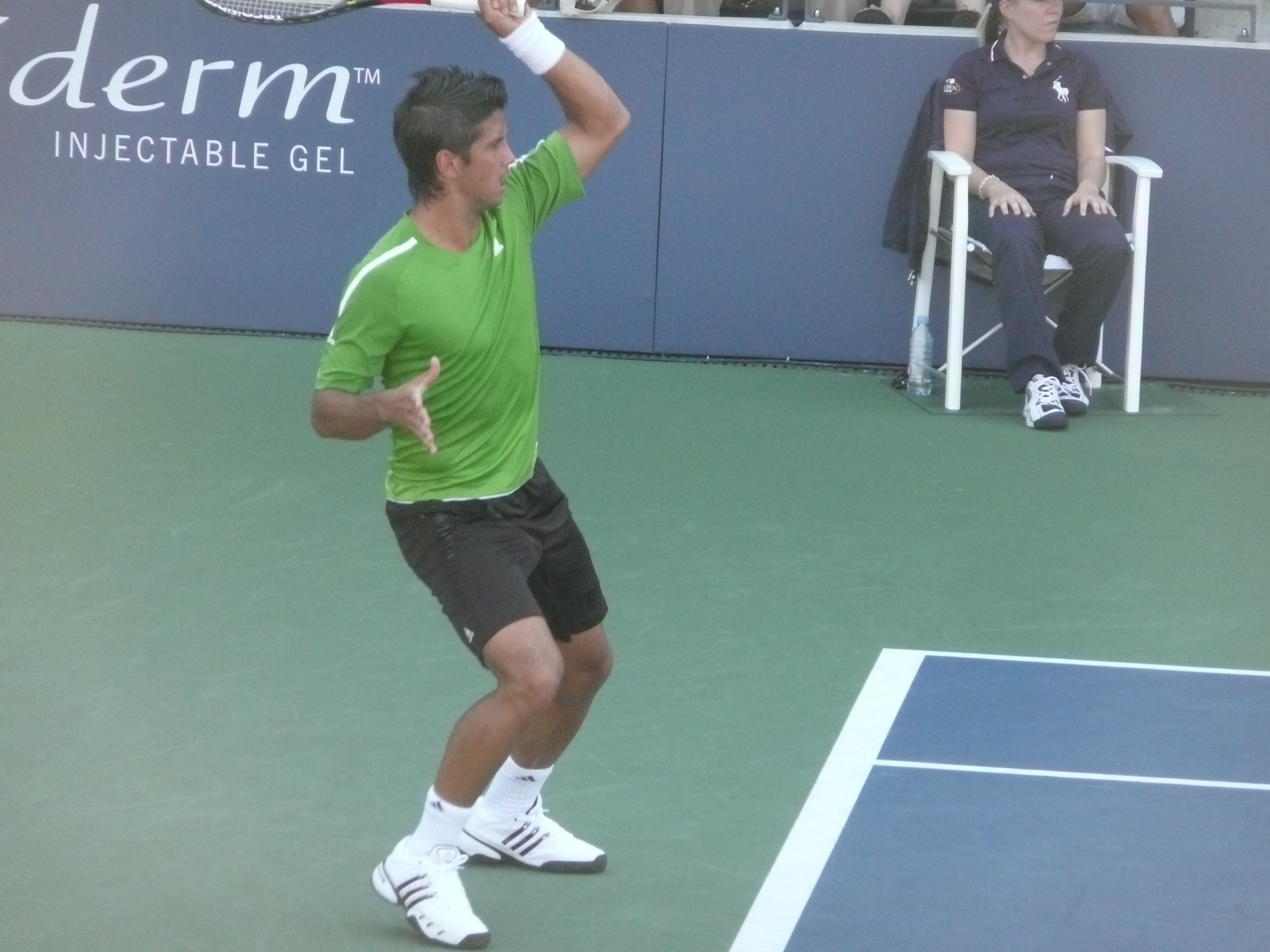 Fernando Verdasco hitting a forehand in his match against Igor Andreev